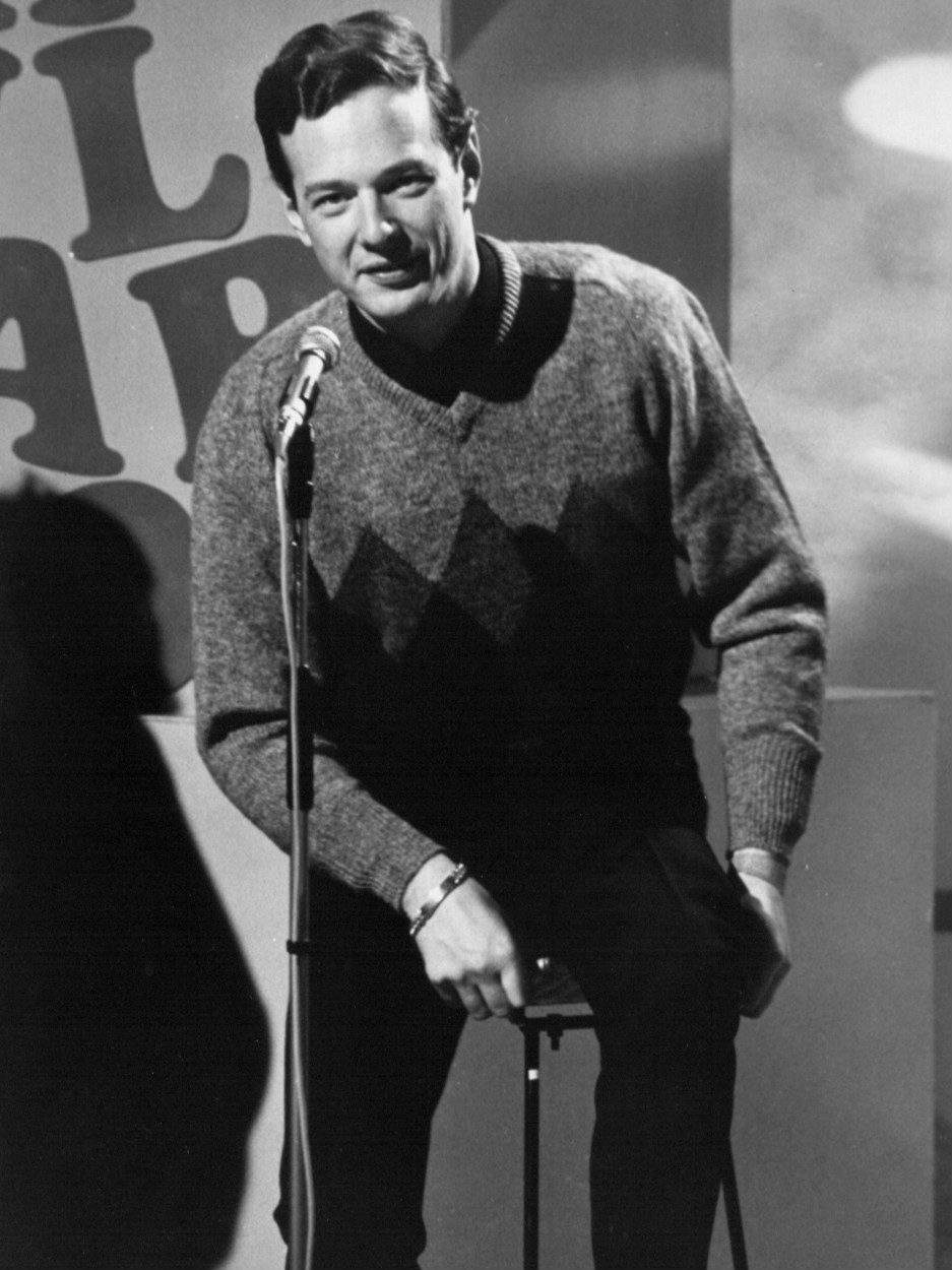 Photo of Brian Epstein from the 1960's NBC teen music program Hullabaloo. Epstein served as host of a special segment of the show taped in London for US broadcast, where he introduced up and coming UK music acts to the American audience.